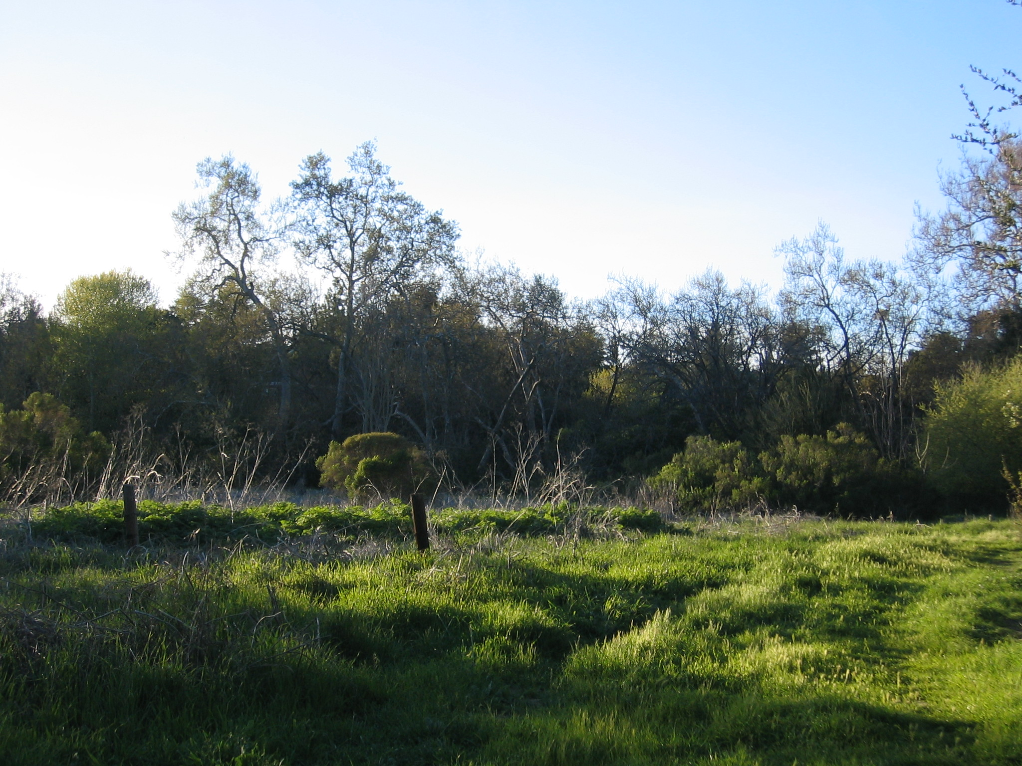 The largely rural McClellan Ranch Park in Cupertino, CA